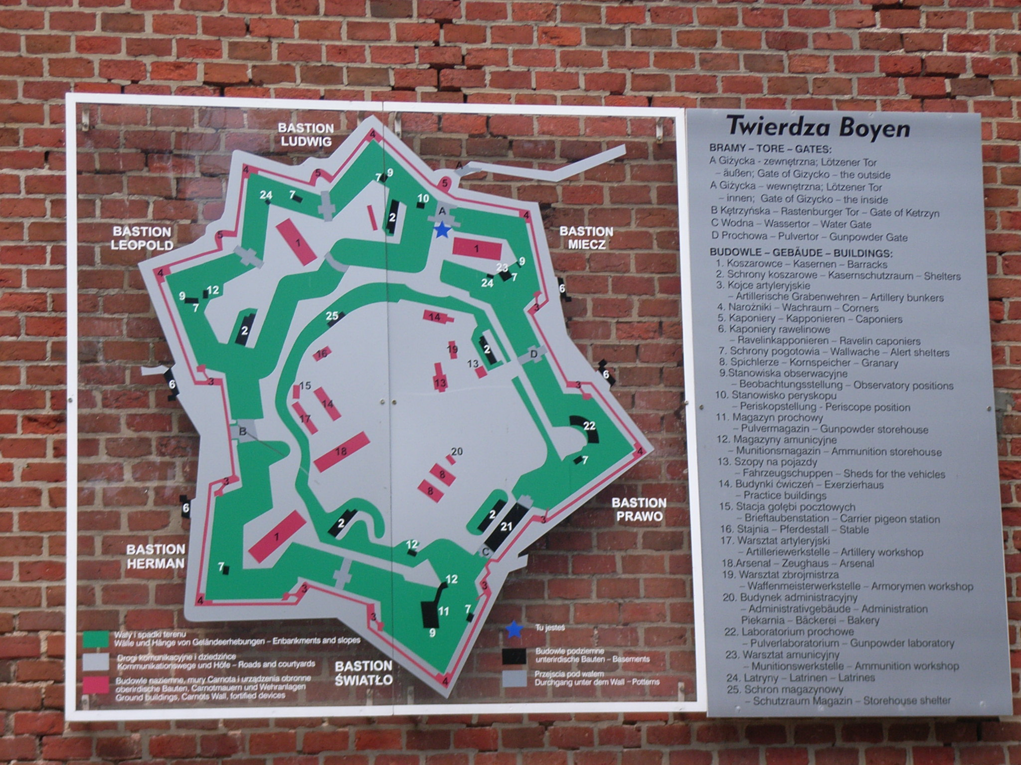 map of the fortress "Boyen" in Giżycko, Masuria, Poland